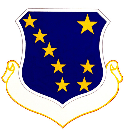 Emblem of the U.S. Air Force Alaska Air National Guard.